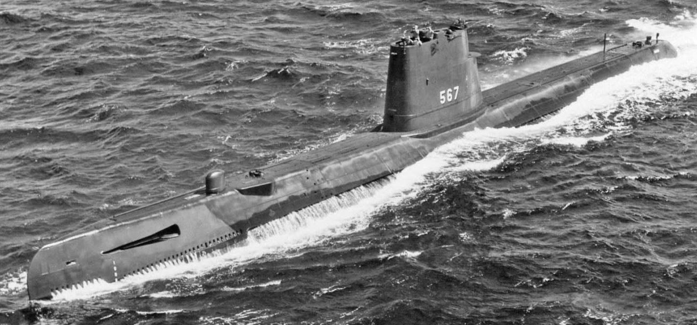 Forward port quarter photo of Gudgeon (SS-567). The location and actual date are unknown. The photo was entered into the Mare Island photo collection in Feb 66 shortly after Gudgeon started overhaul.